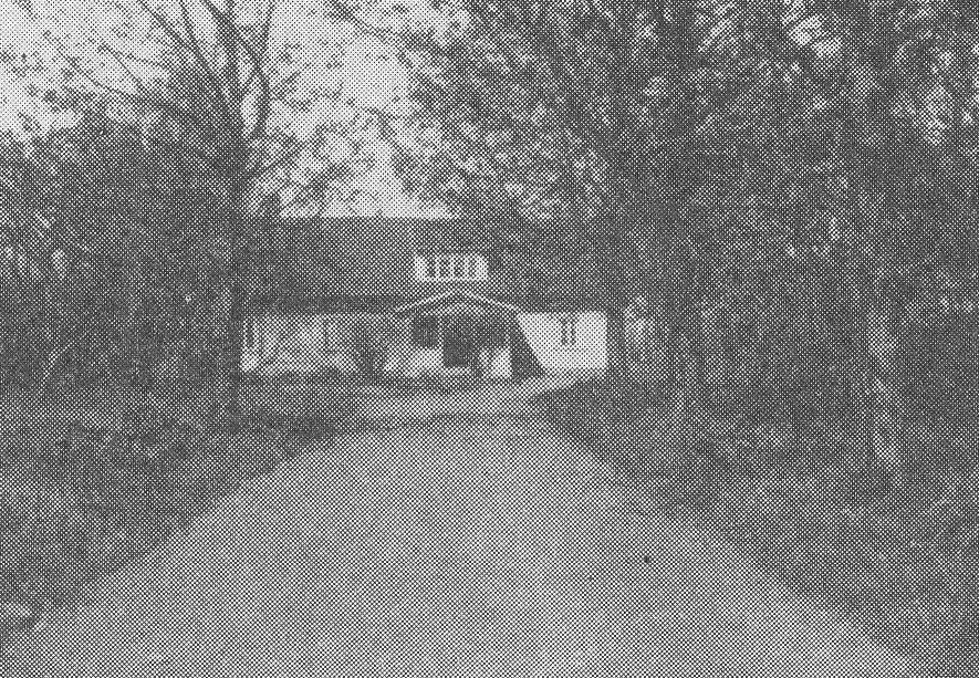 The rectory in Magård, former rectory for the chaplain in Okome